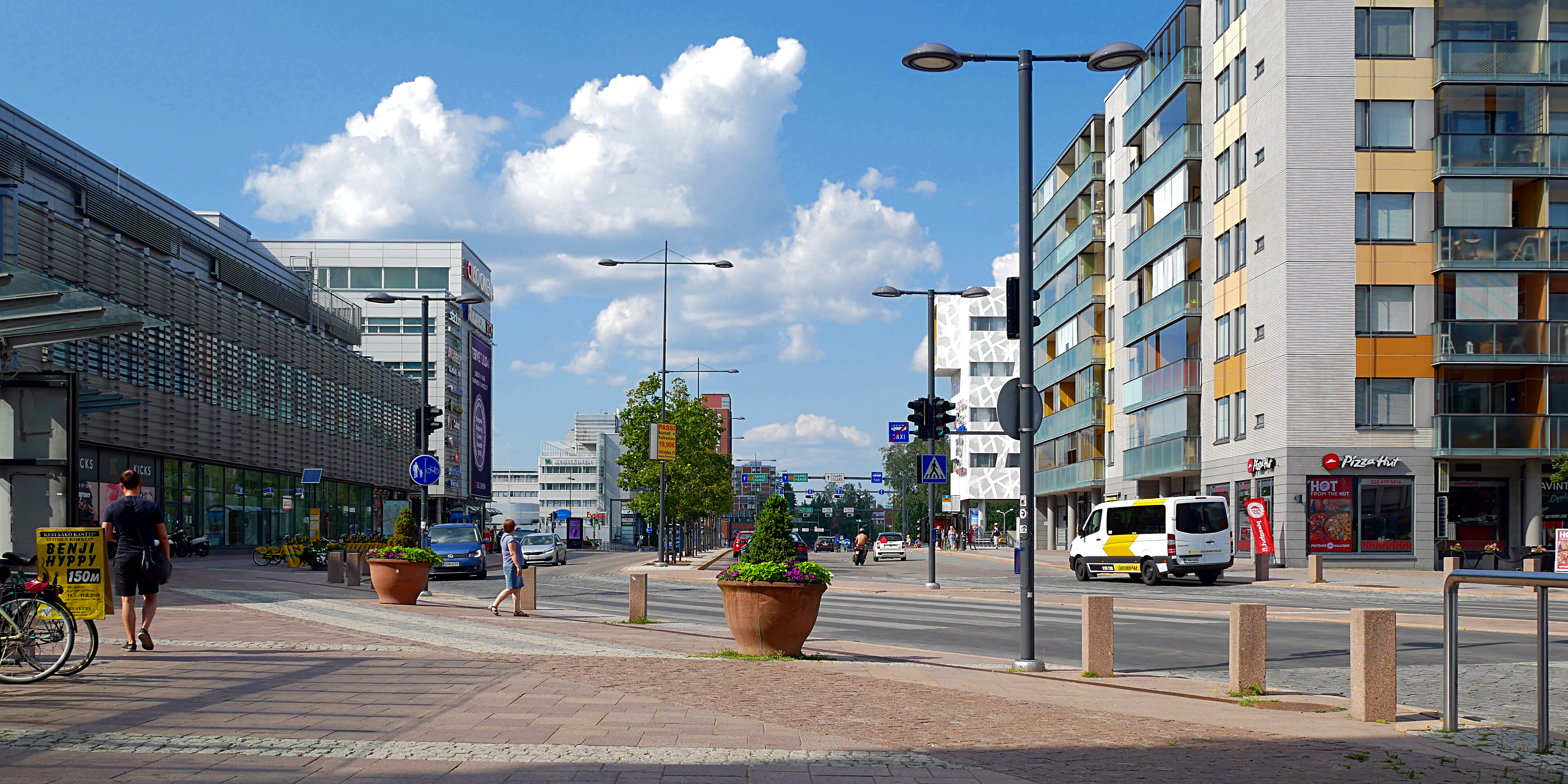 Matinkylä in Espoo, Finland. Summer of 2019.